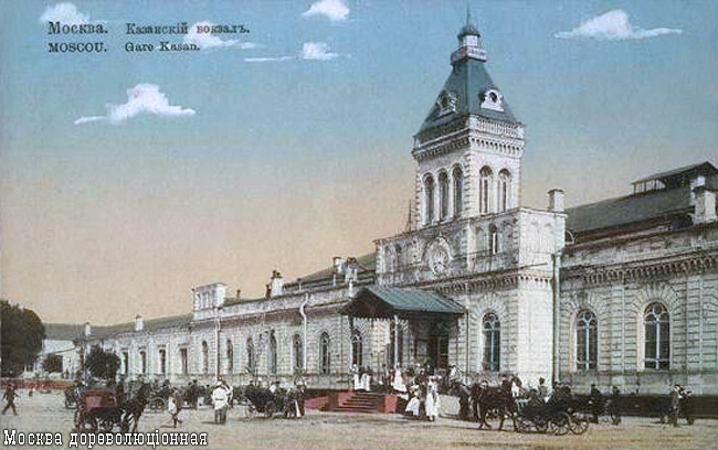 pre-revolutionaty russian postcard of Kazansky Rail Terminal